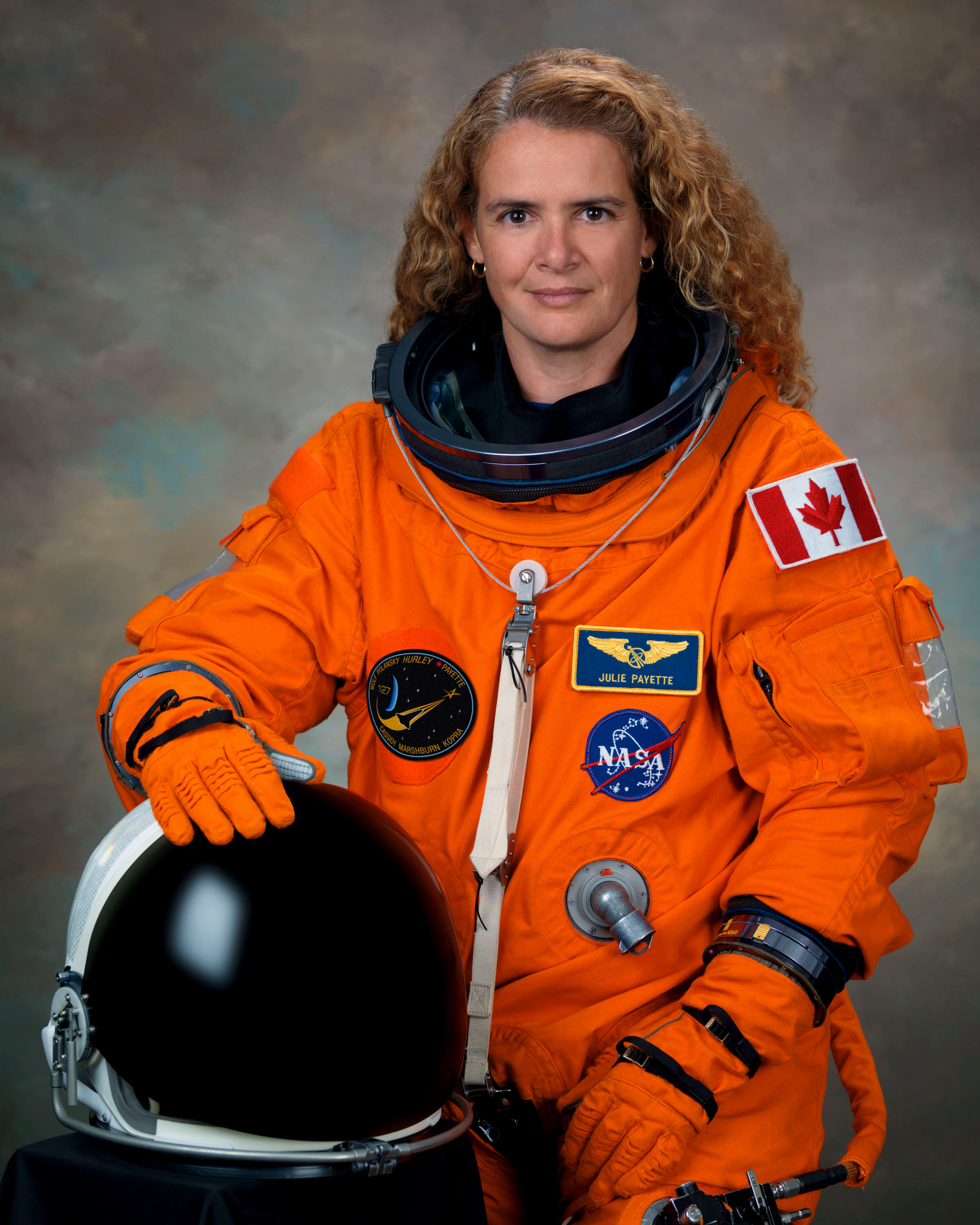 Canadian Space Agency astronaut Julie Payette, STS-127 Mission Specialist